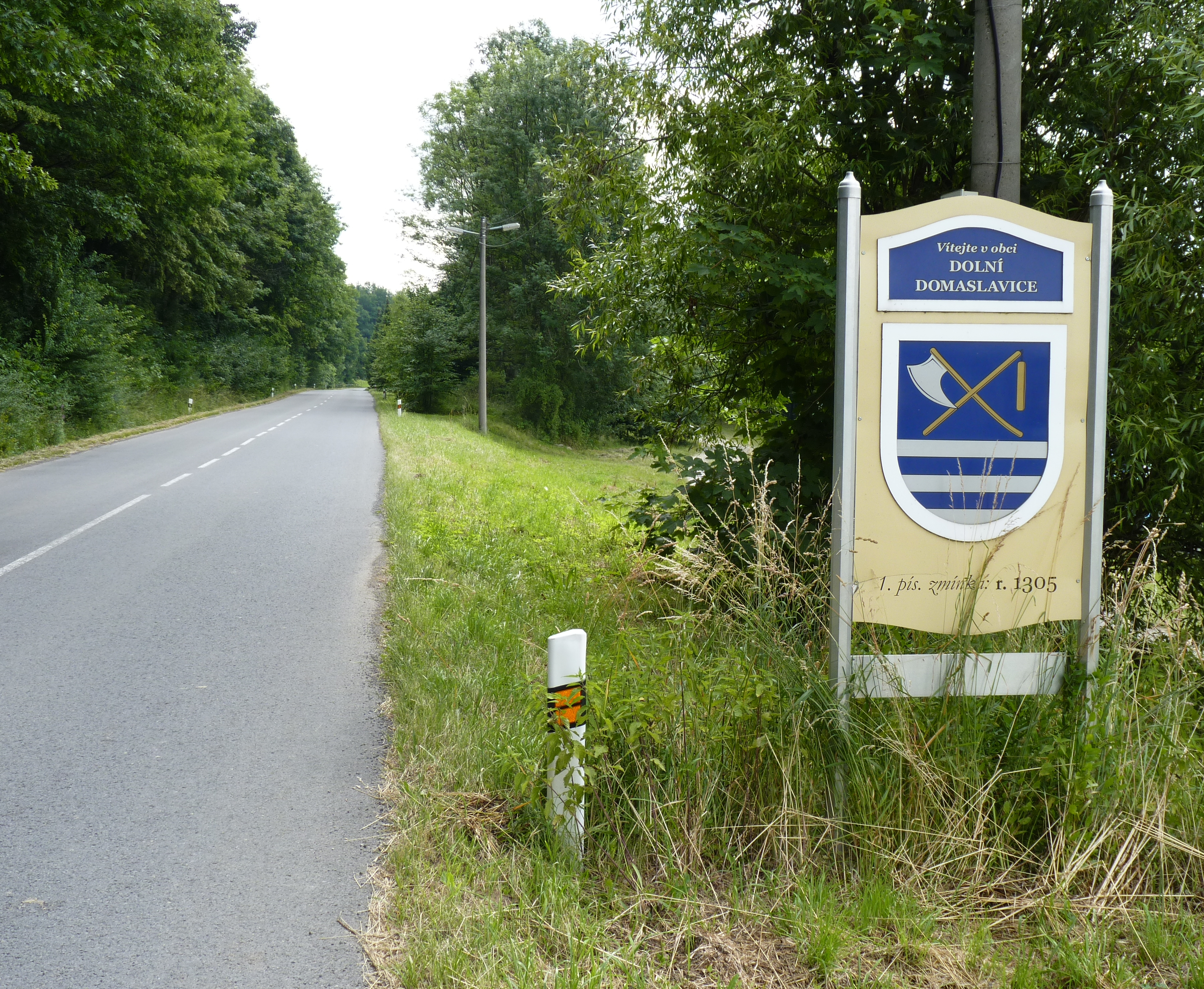 Dolní Domaslavice. Frýdek-Místek District, Moravian-Silesian Region, Czech Republic